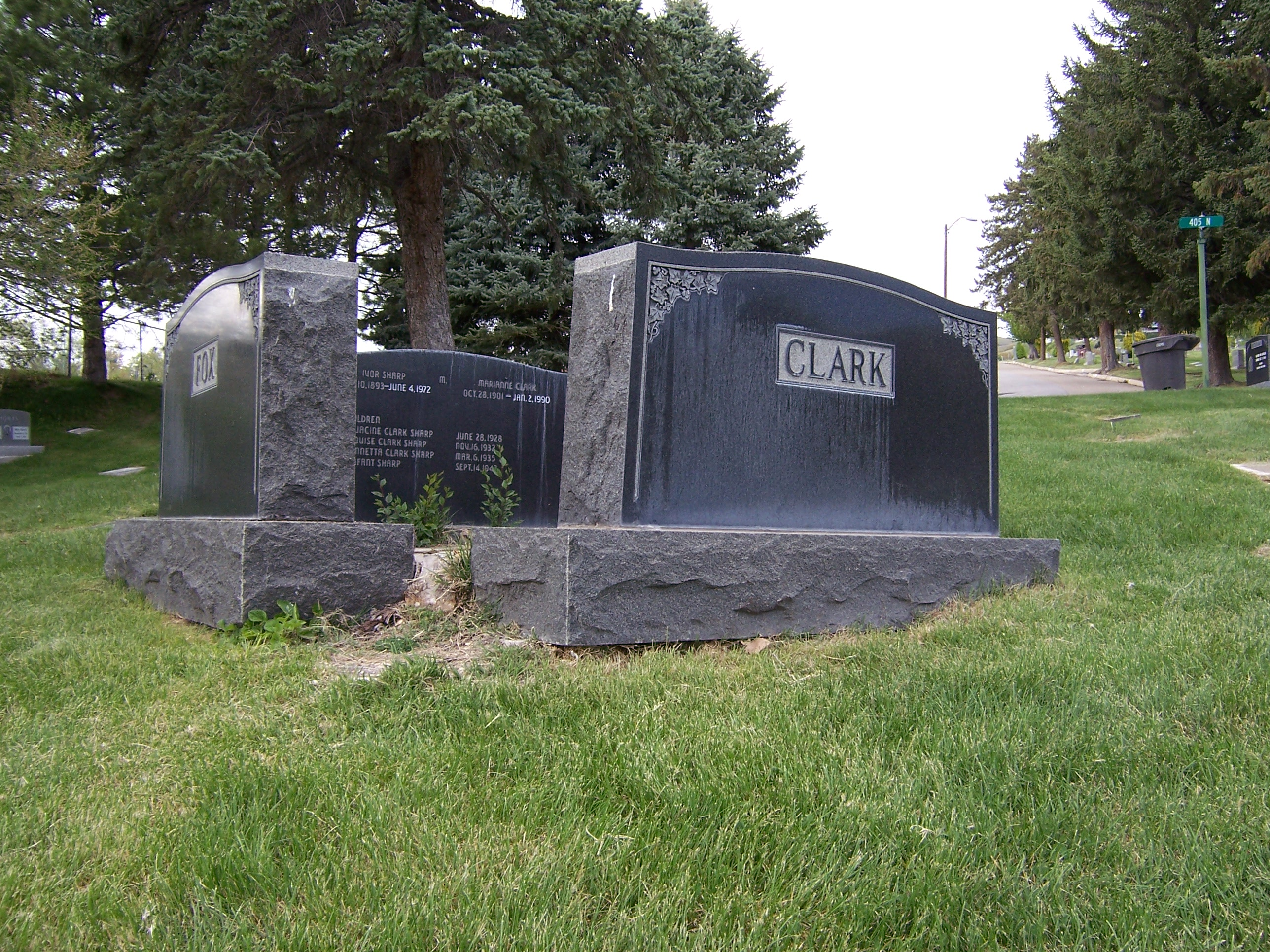 J. Reuben Clark family grave marker.